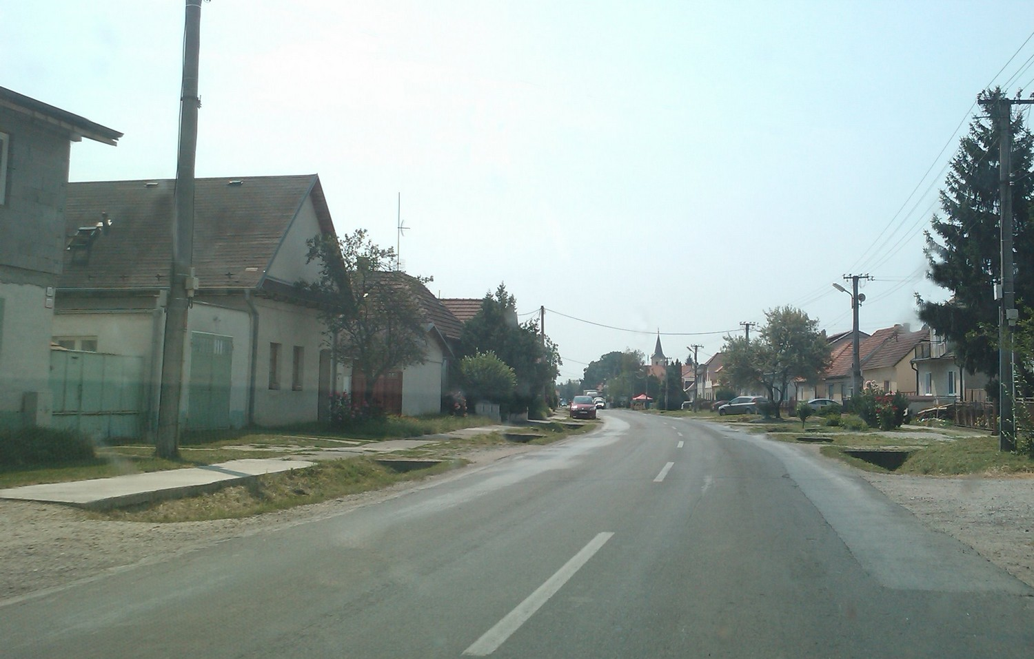 Village of Viničné, Pezinok District, Slovakia (2014-06-12)